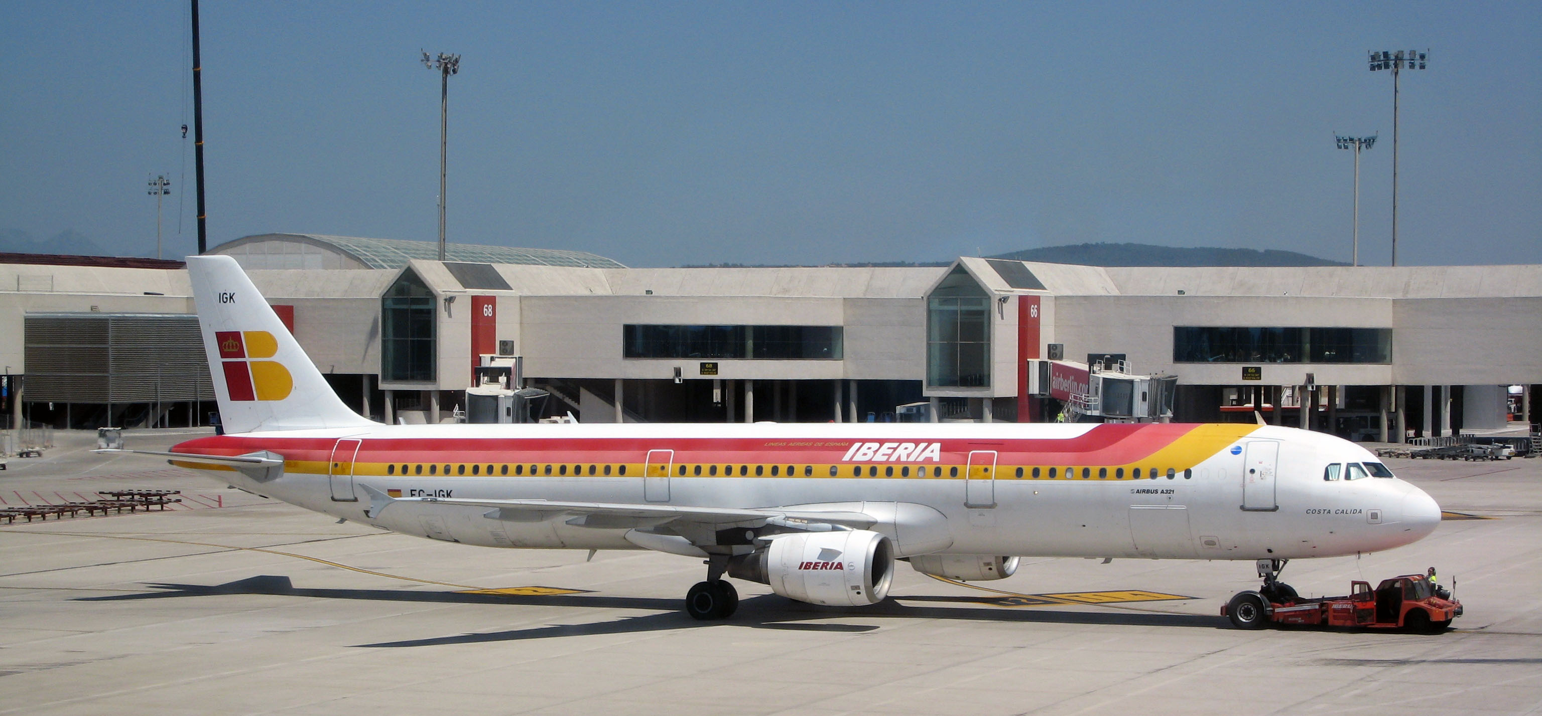 Iberia Airbus A321-211 EC-IGK (cn 1572) "Costa Calida" at Palma de Mallorca Airport (PMI)